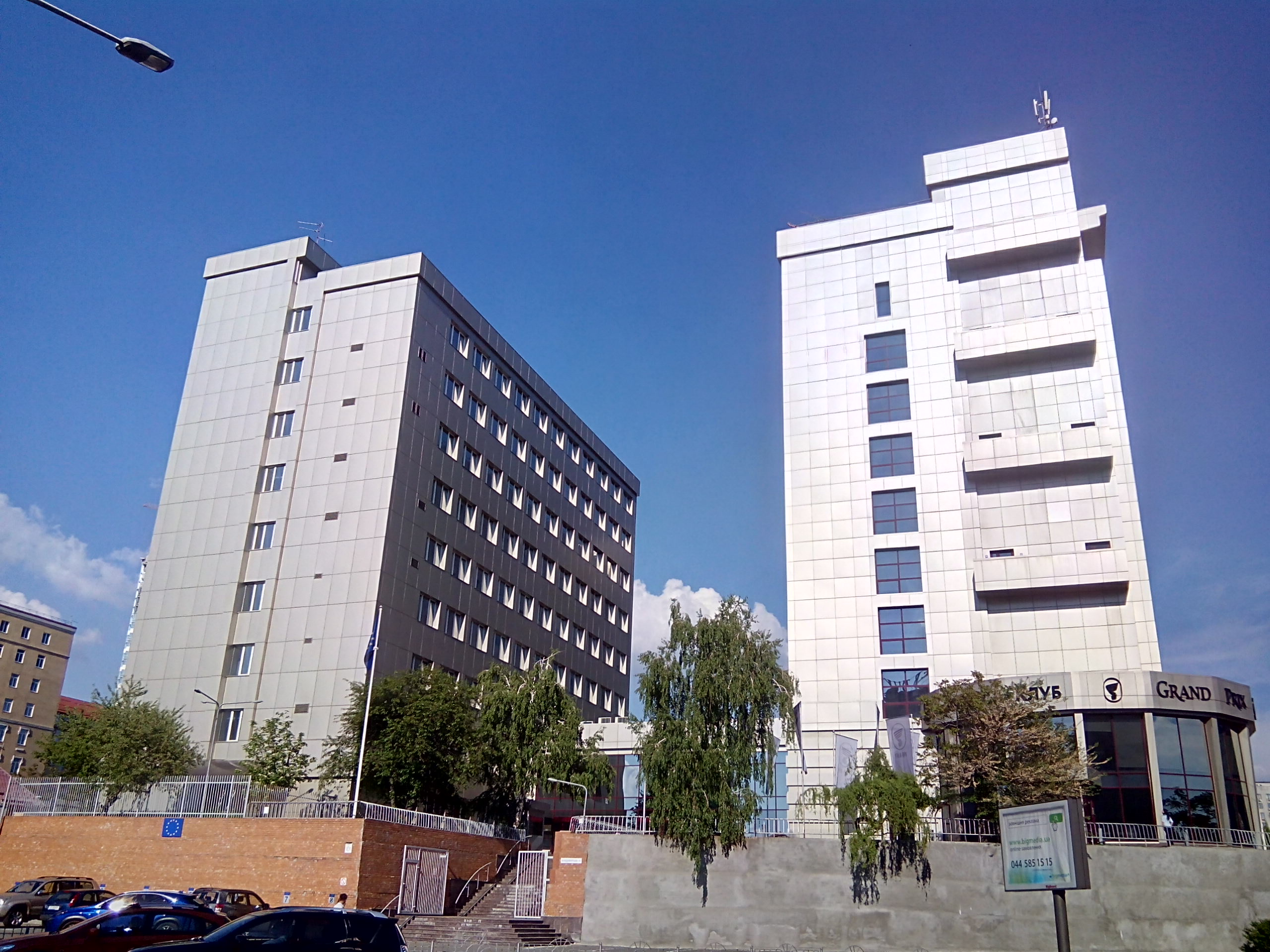 Embassy of European Union in Ukraine. 01033, Volodymyrska street, 101, Kiev.